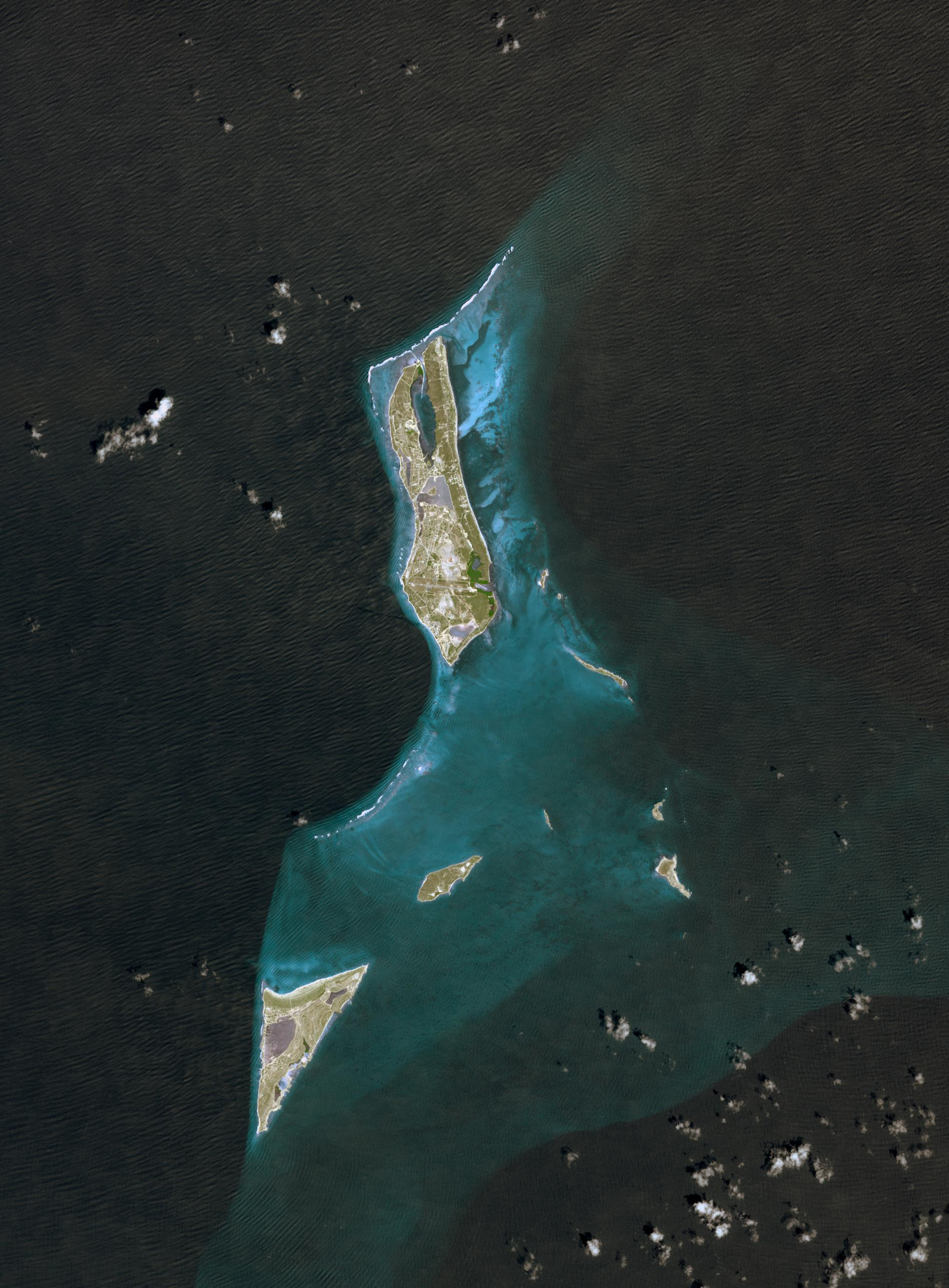 The Advanced Spaceborne Thermal Emission and Reflection Radiometer (ASTER) on NASA’s Terra satellite captured this approximately true-color image of part of the island chain. Shown here are Grand Turk, its southerly neighbor Salt Cay, and several smaller islands. The coral surrounding the landmasses glows peacock blue, and altogether, the shape of the coral pillar resembles a giant bird in flight. The areas above water show a combination of vegetation and cityscape.